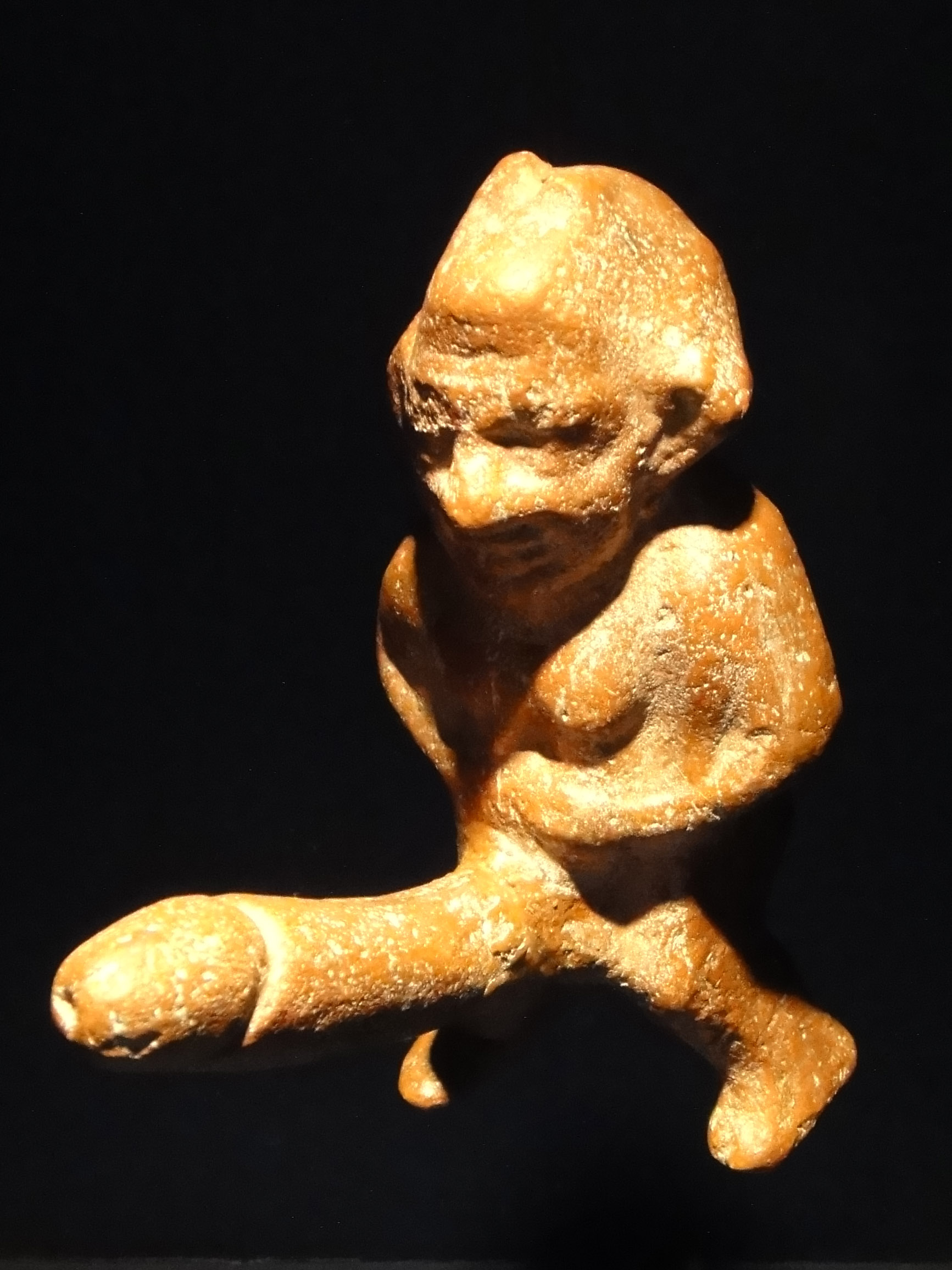 A Bes (?) or Priapos statuette from Ephesus.